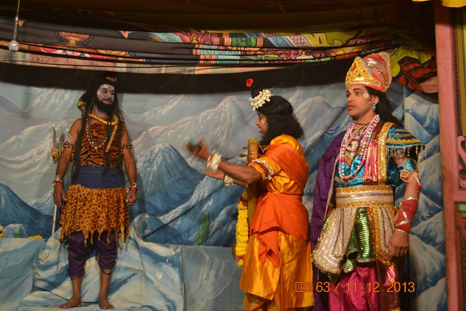 During Zatra